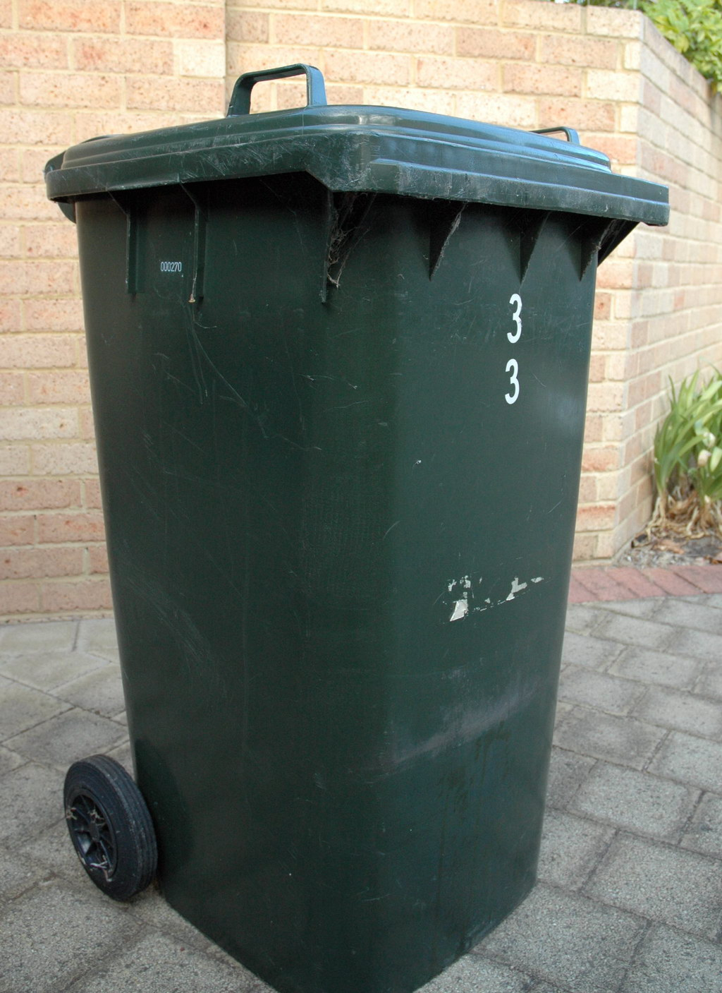 Australian "Wheelie Bin" used for domestic rubbish collection.